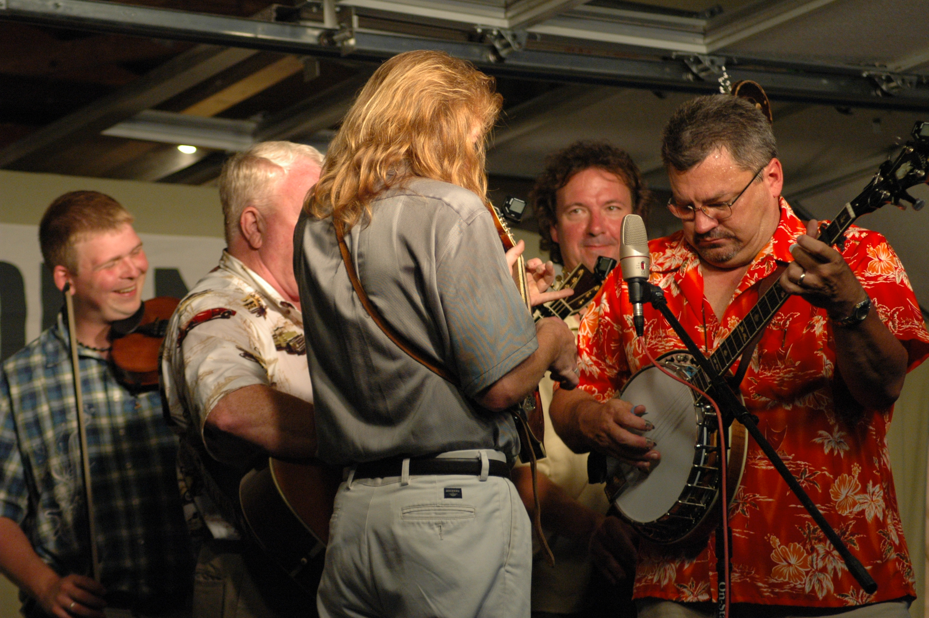 Nothin' Fancy bluegrass band.